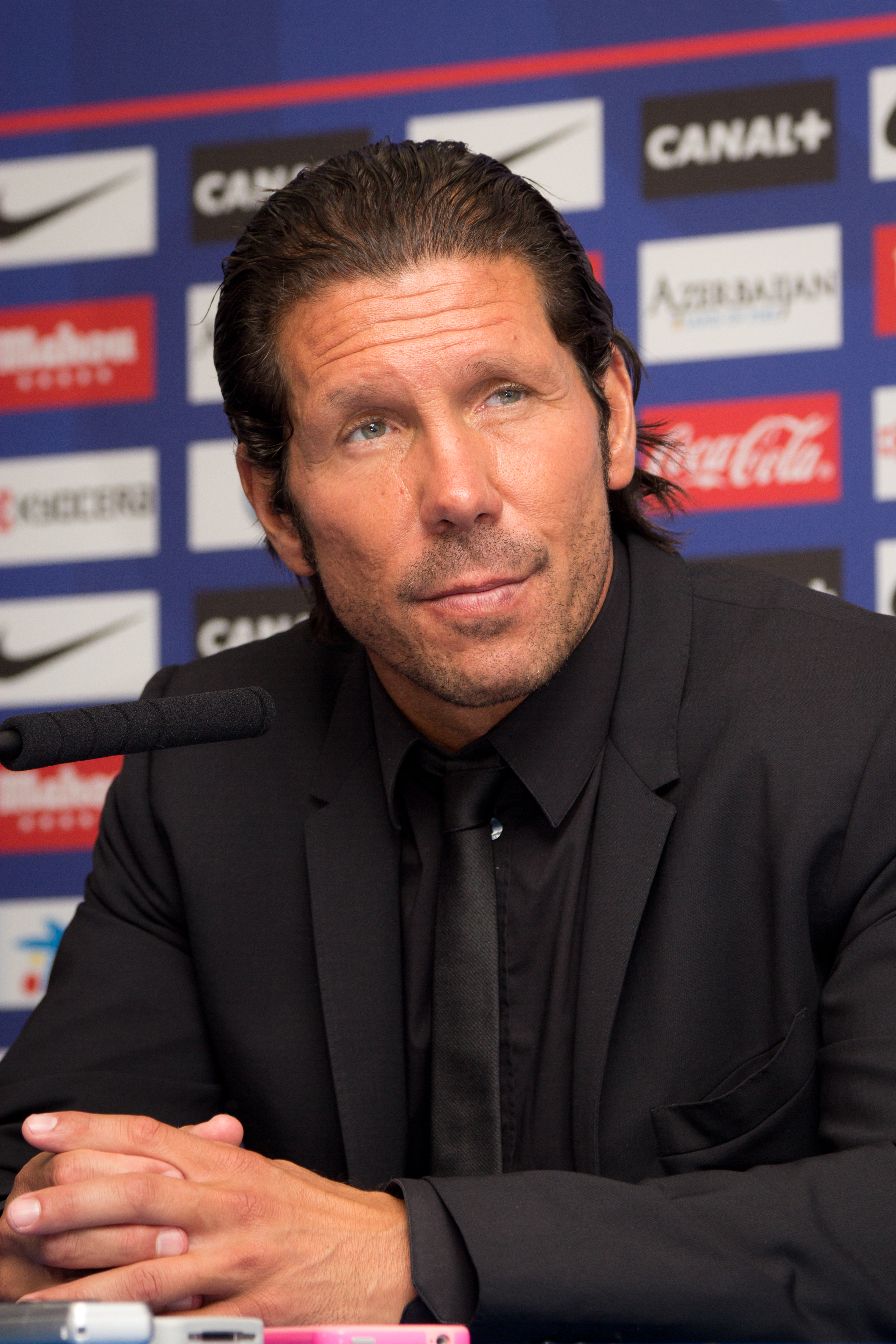 Diego Simeone during a news conference after a football game as coach of Atlético de Madrid.